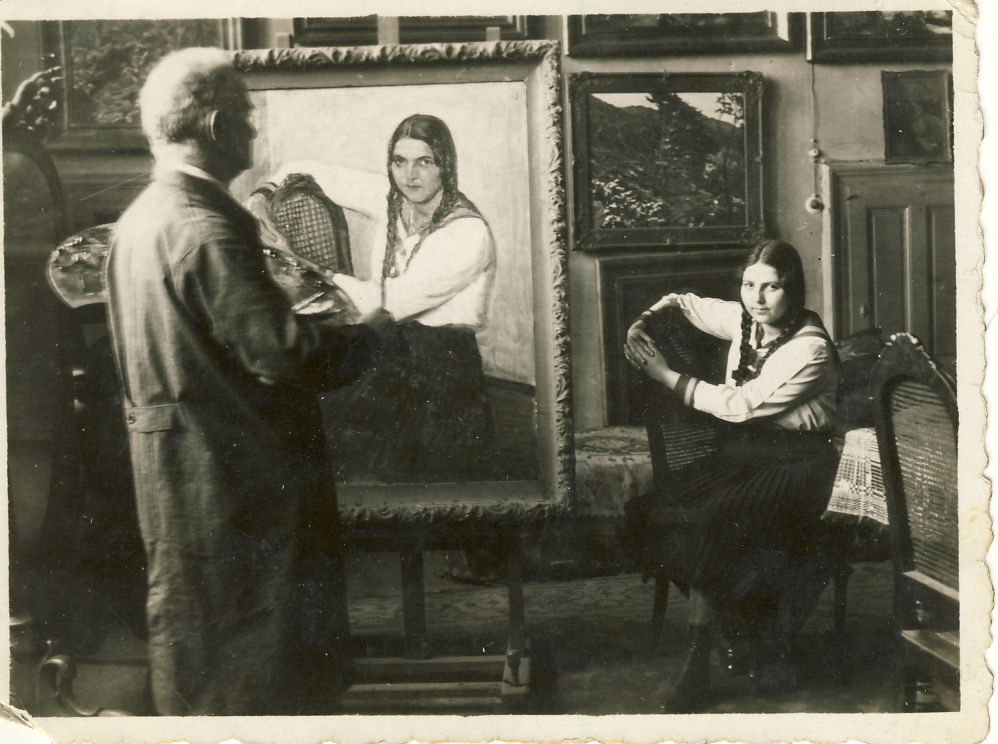 Félix Bódog Widder is painting his daughter, Magda, mother of Prof. Dr. Judit Vihar